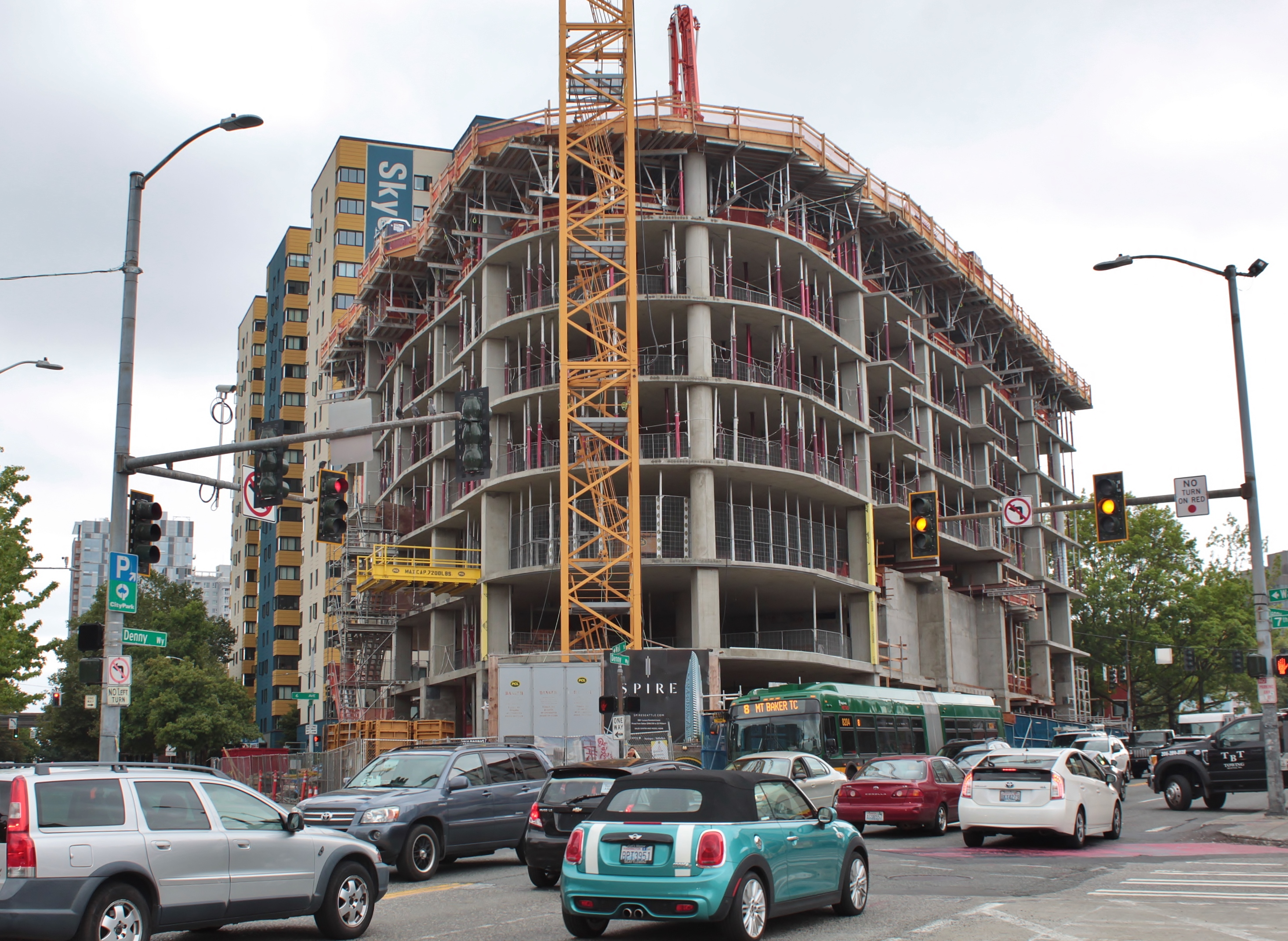 Spire, a residential high-rise building, seen under construction